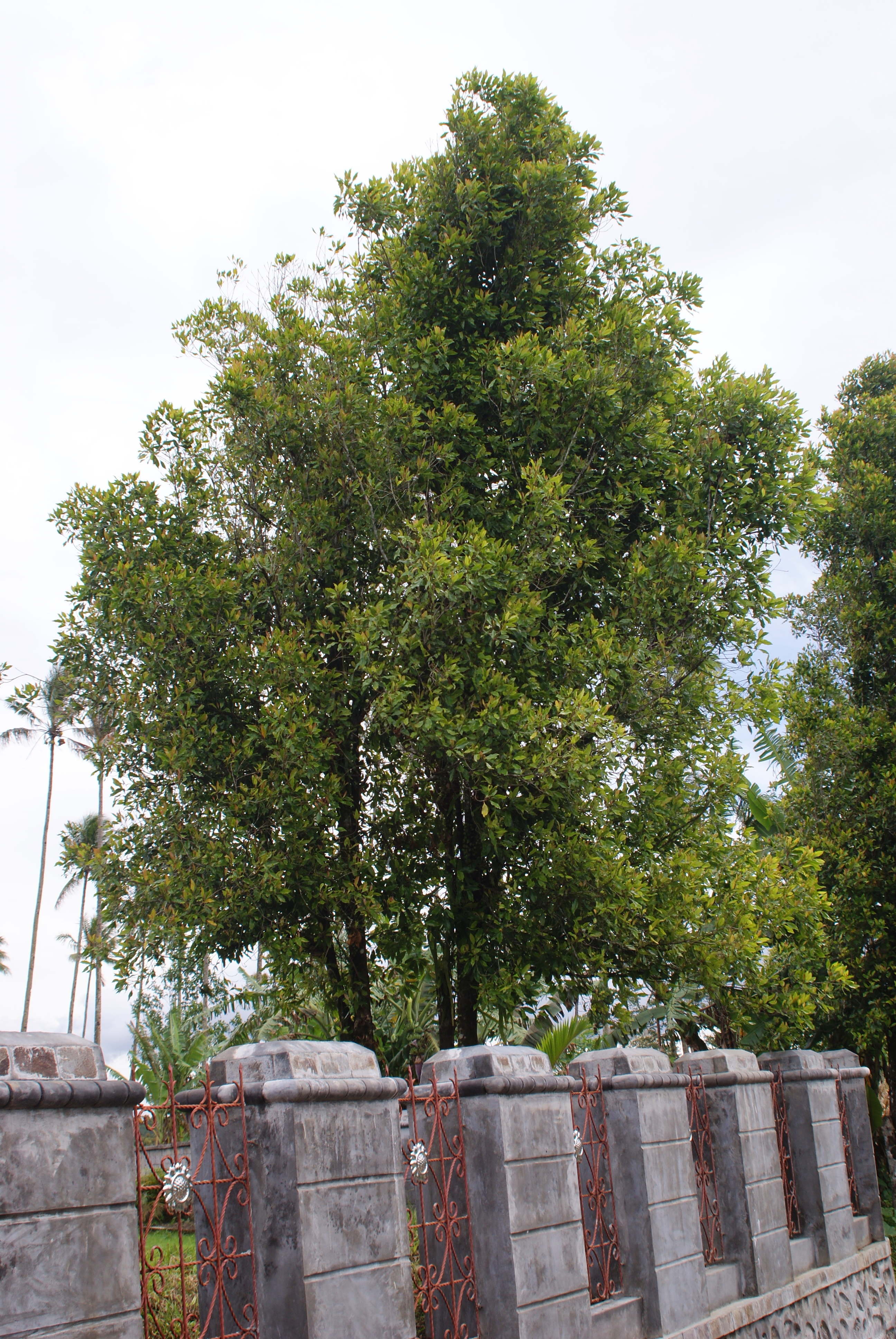 Clove, Syzygium aromaticum, North Sulawesi, Indonesia